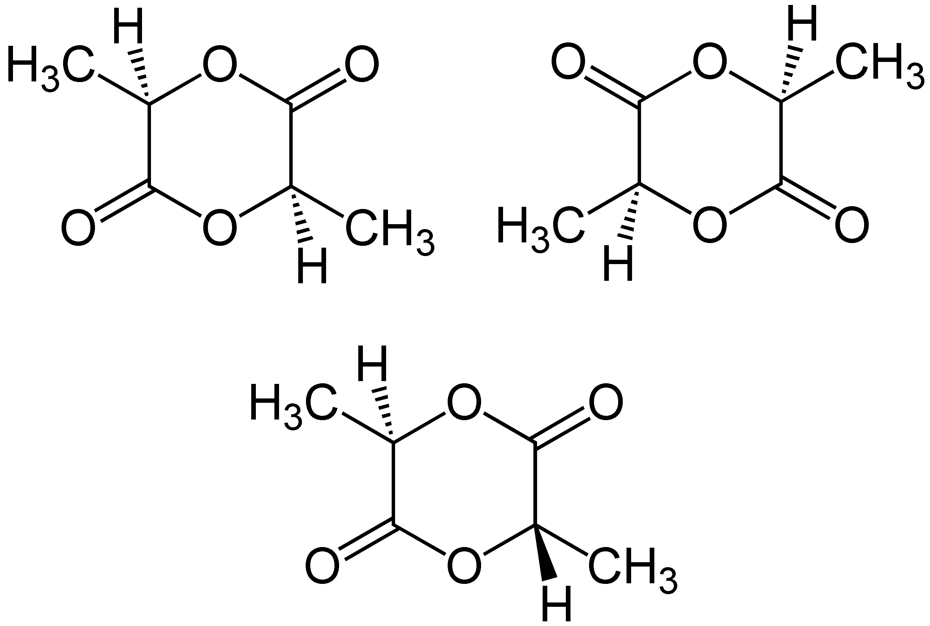 Lactide_Stereoisomers_Structural_Formulae